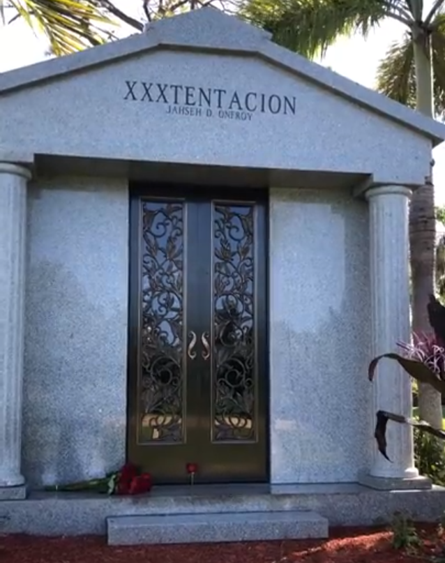 Photo from the mausoleum of singer XXXtentacion in 2018.